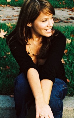 Actress und musician Marla Sokoloff